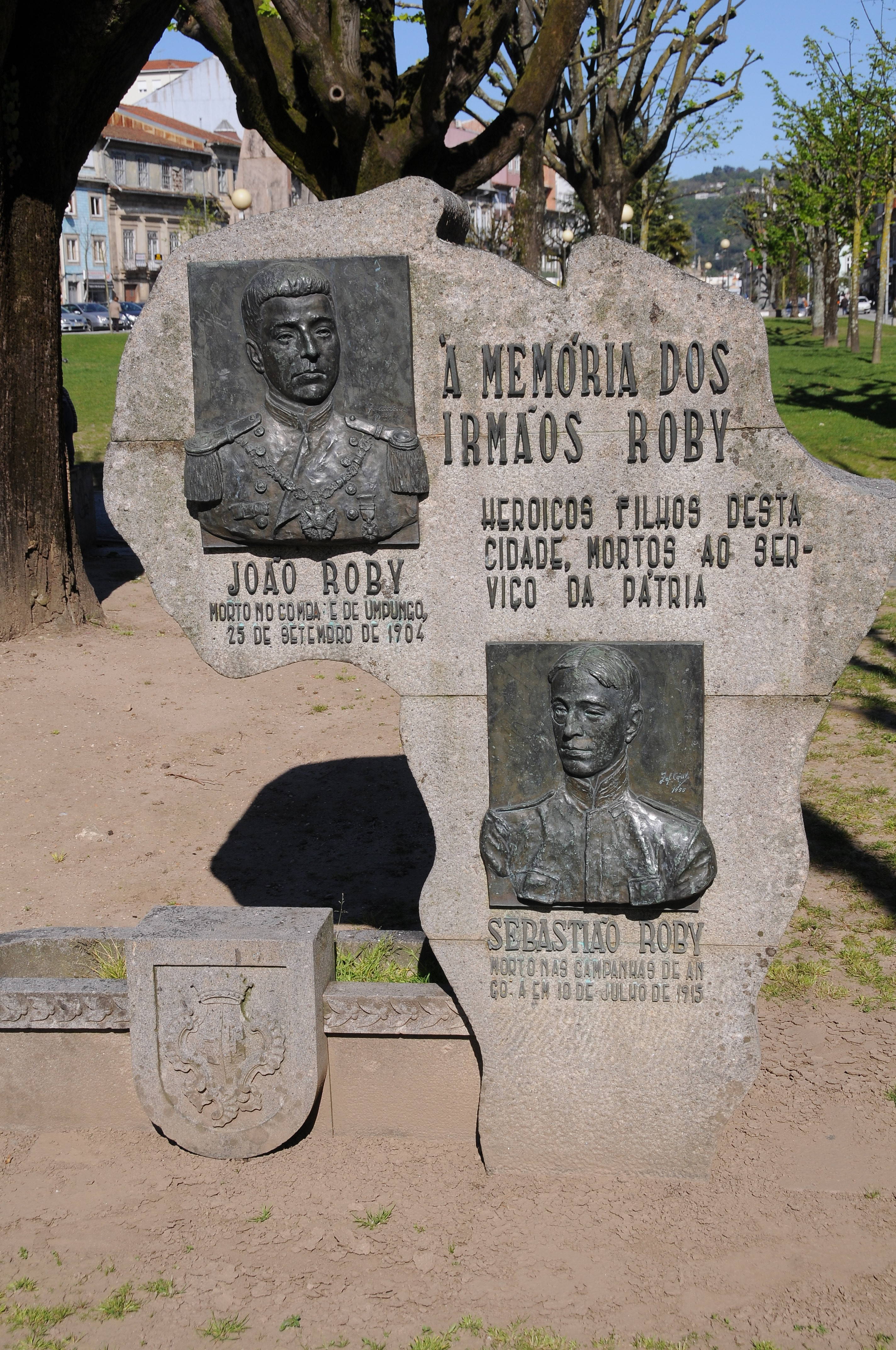 Irmãos Roby Monument in Avenida Central, Braga, Portugal.